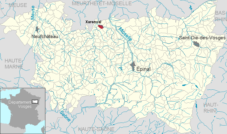 Xaronval in the department of Vosges, Lorraine, France